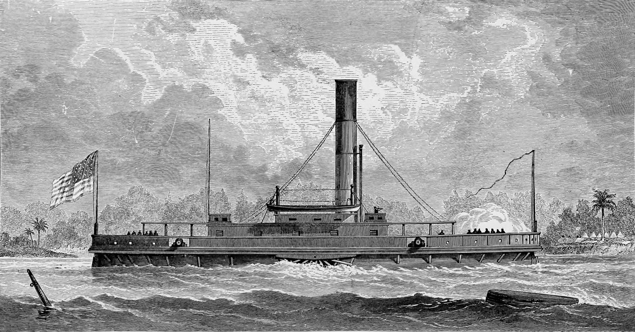 Line engraving of USS Ellen, a U.S. Navy gunboat in 1861-62, later a carpentry ship.